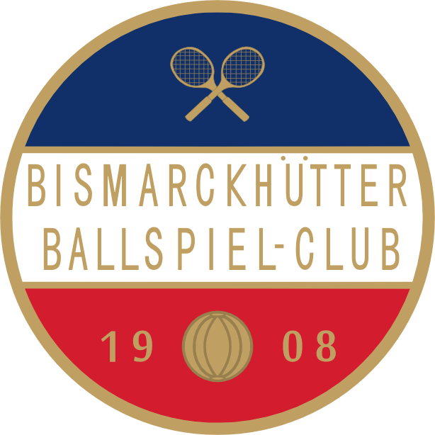 Logo of Bismarckhütter Ballspiel-Club, German football team.